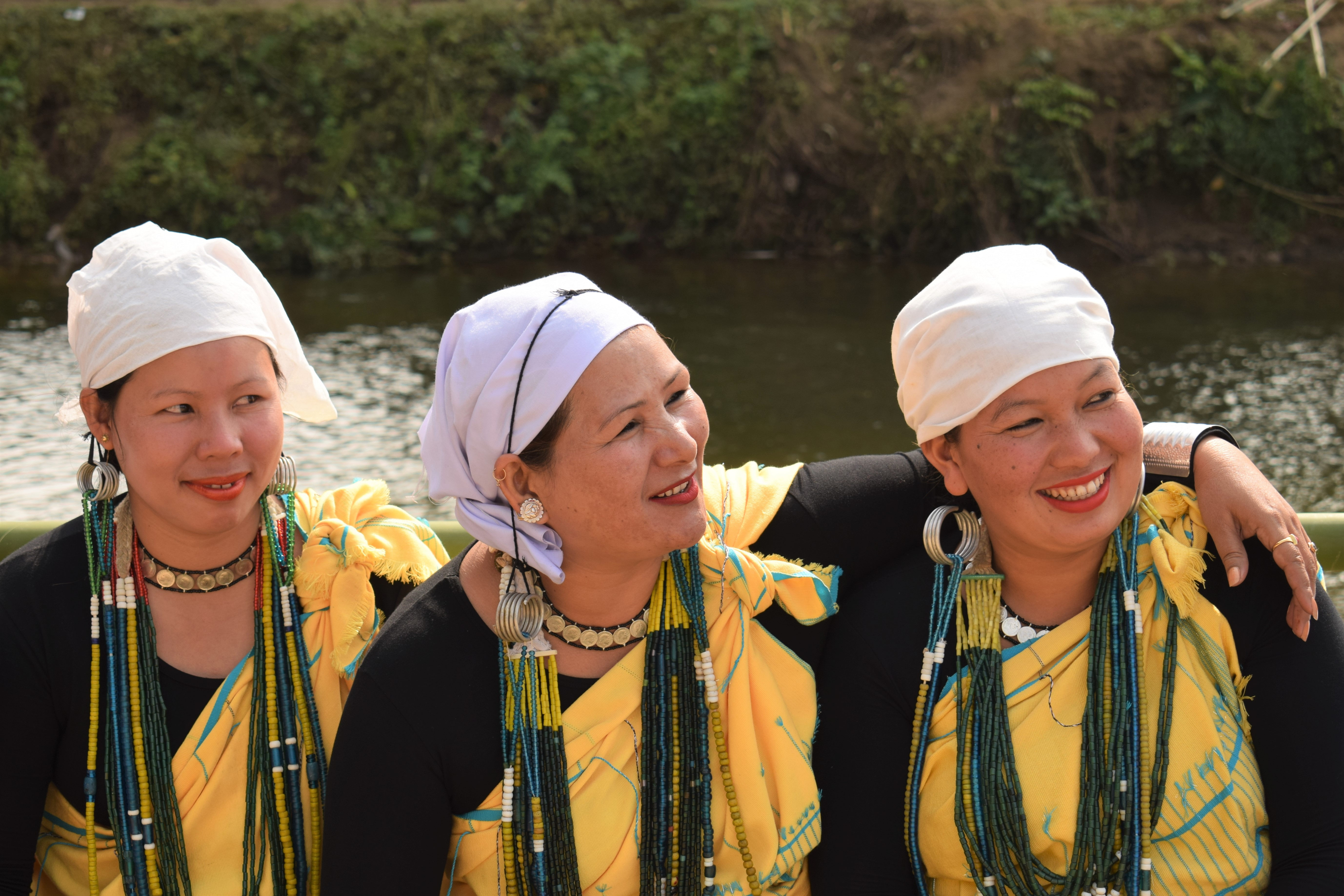 Women from the Galo tribe in traditional dress at the BASCON festival in Basar, Arunachal Pradesh, India.